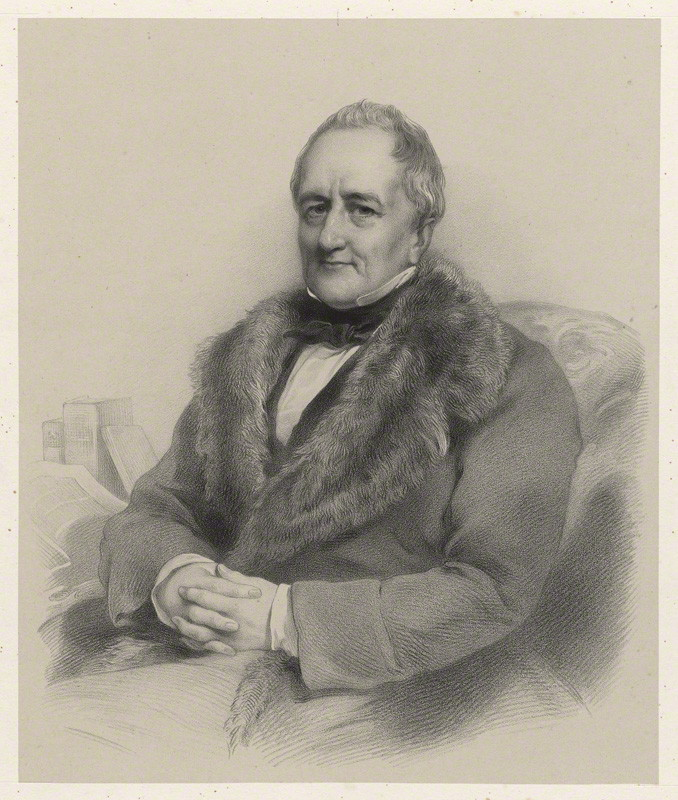 Portrait of William Richard Hamilton (1777–1859), British antiquarian, traveller and diplomat.